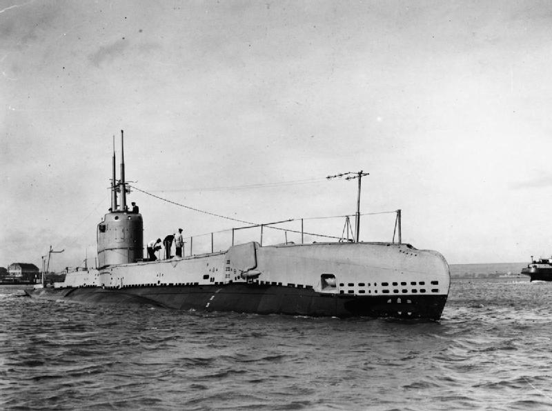 British S class submarine SEAHORSE leaving Portsmouth for trials, on completion